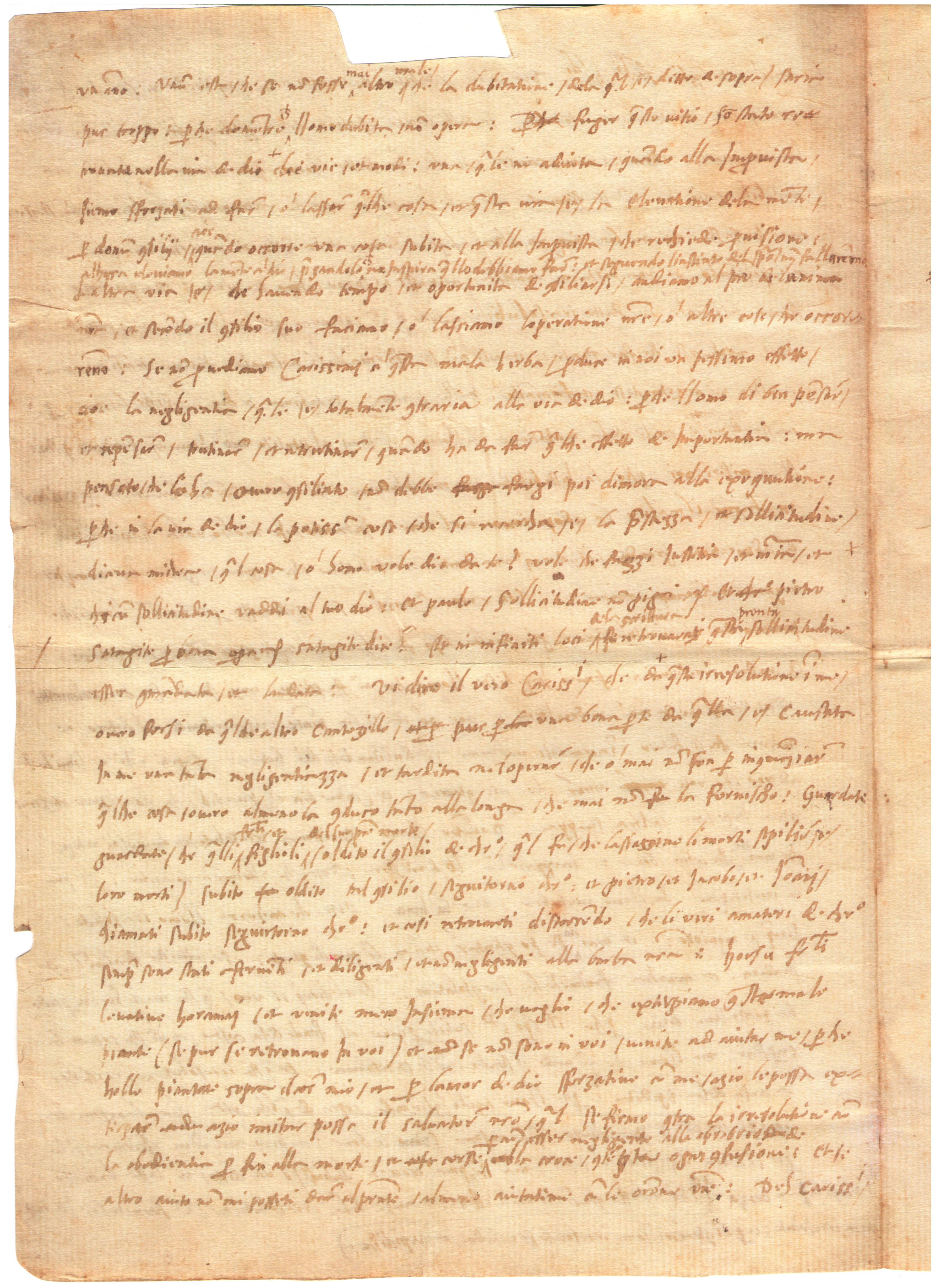 Anthony Maria Zaccaria